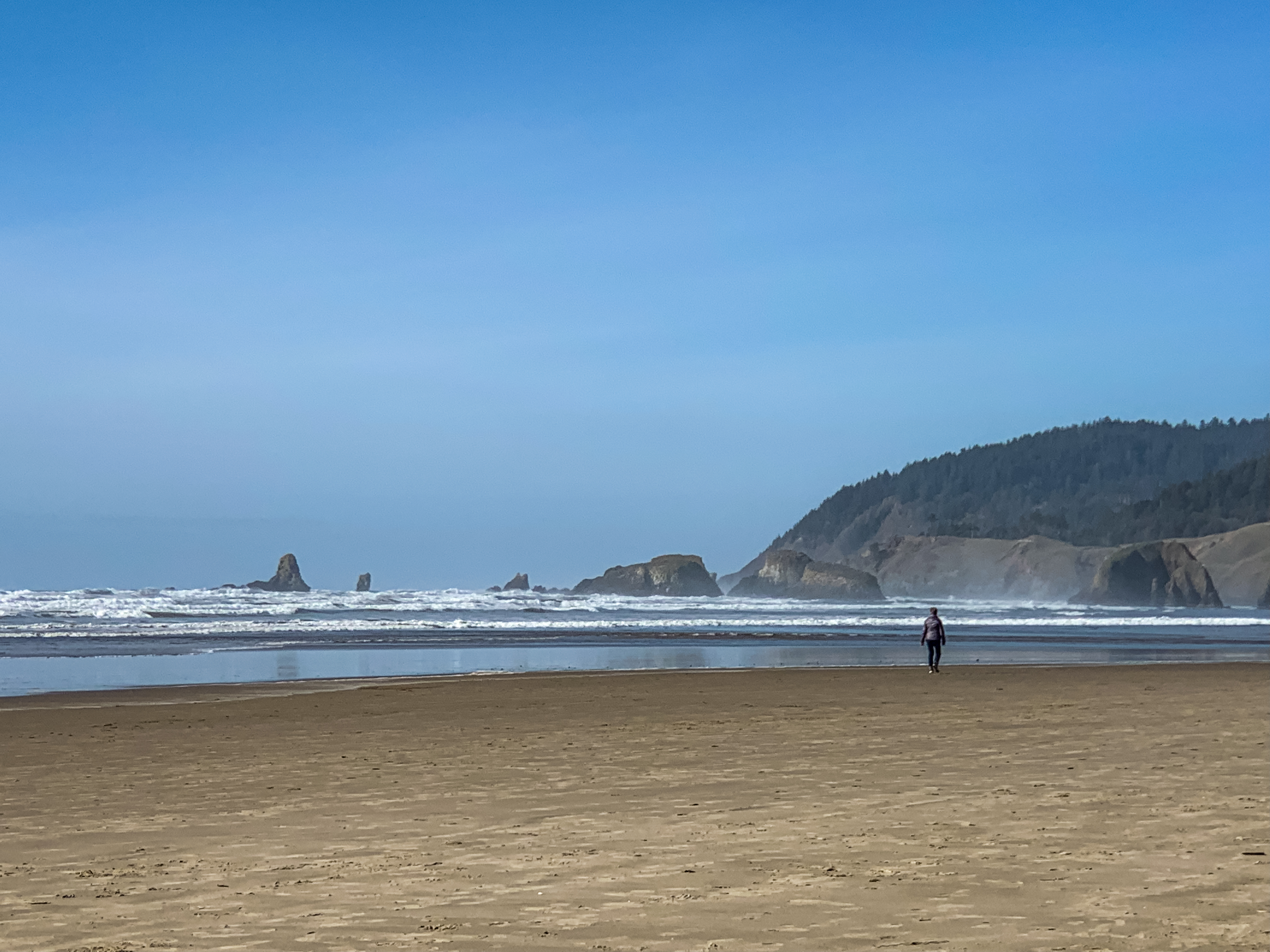 View of Cannon Beach, Oregon looking northwest up the beach, with the Ecola State Park in the distance.